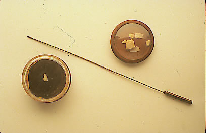 The probe used by Dr. Barnes to locate the ball and the fragments of Lincoln's skull removed at autopsy. Part of the Armed Forces Institute of Pathology (AFIP), therefore work of the US military, in the public domain.